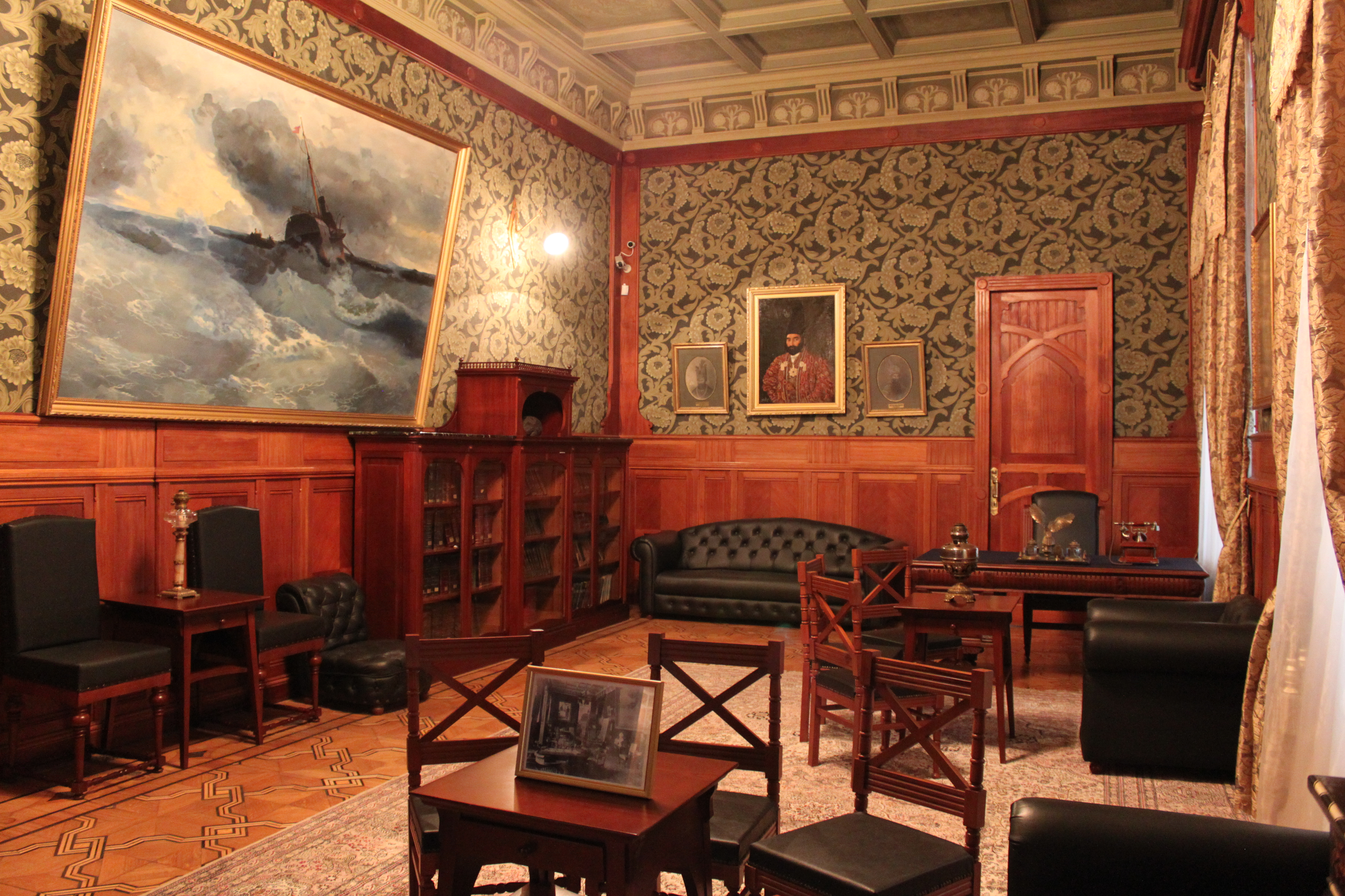 Museum of the History of Azerbaijan, the Cabinet Zeynalabdin Taghiyev